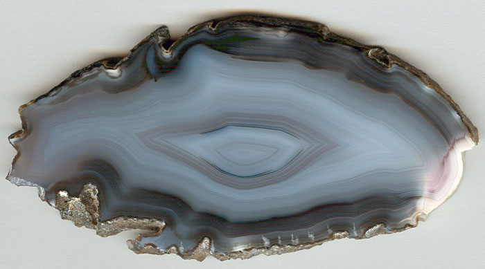 Agate. 10 cm. Brazylia